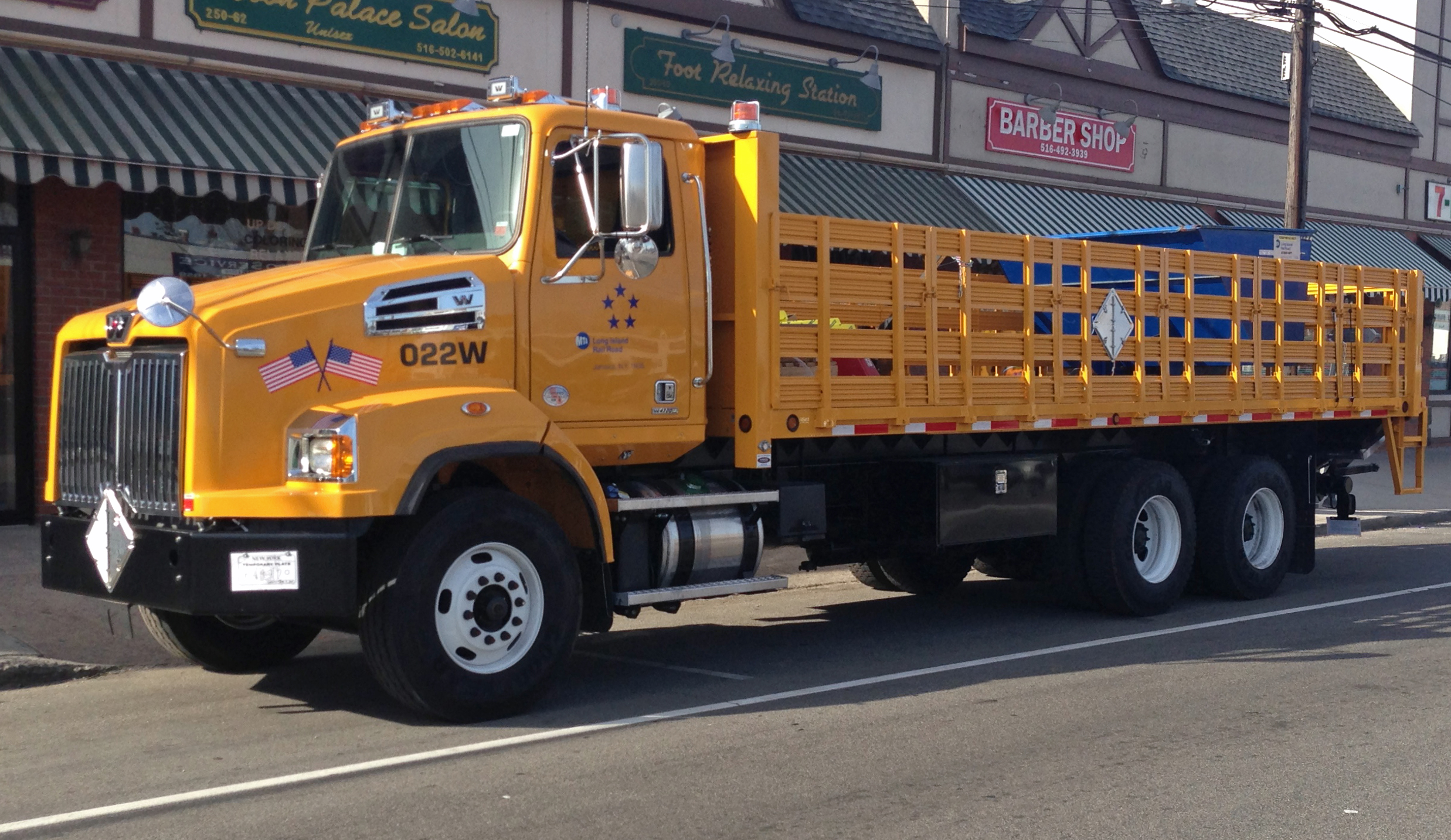 A Western Star 4700SB (set-back axle) belonging to the MTA's Long Island Rail Road (LIRR).